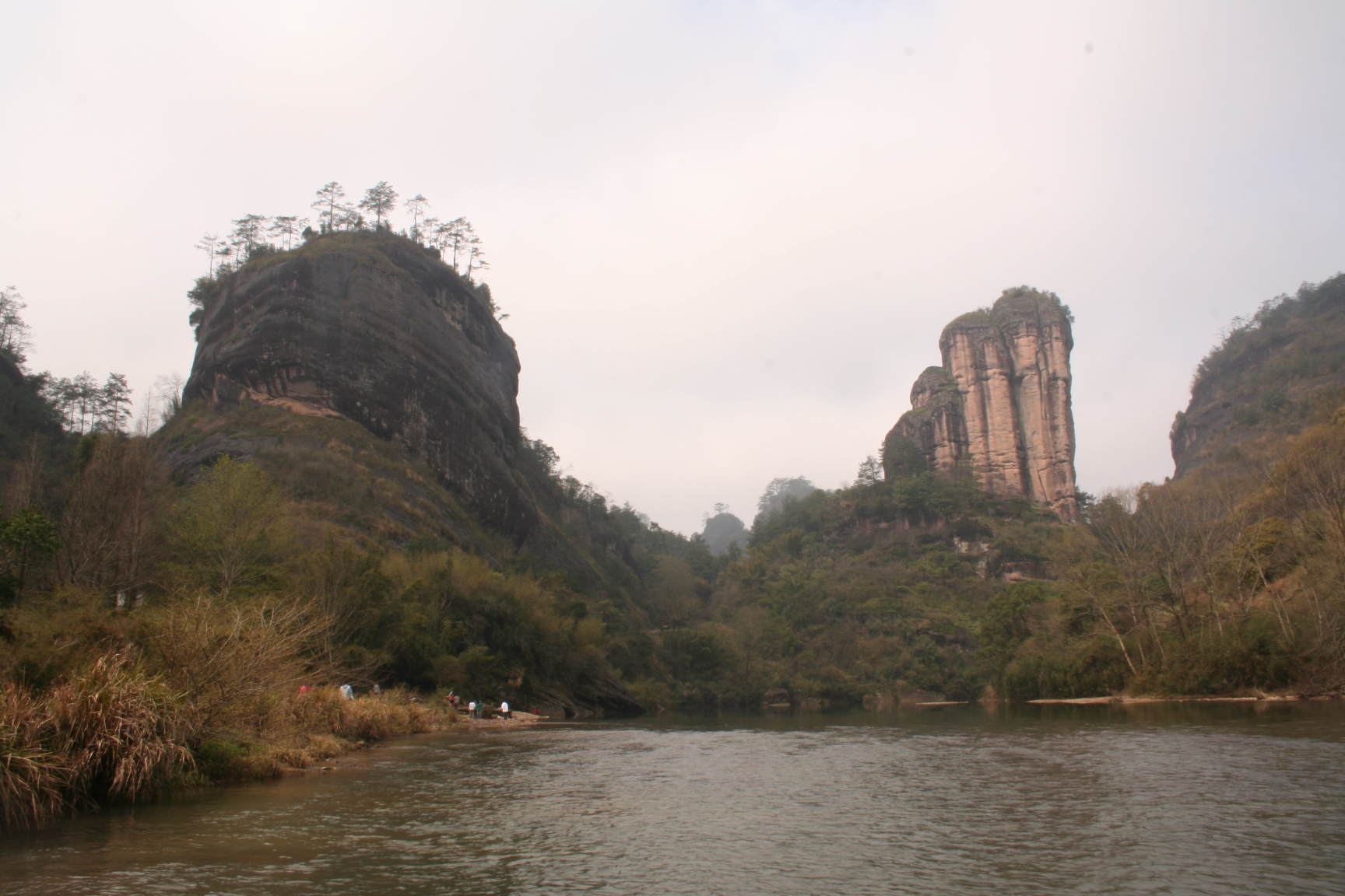 Nine-bend River in the Wuyi Mountains, Fujian Province, China.